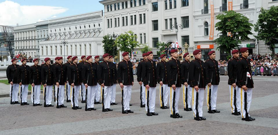 Tbilisi, Georgia — Celebrating of Georgian Independence Day. May 26, 2014